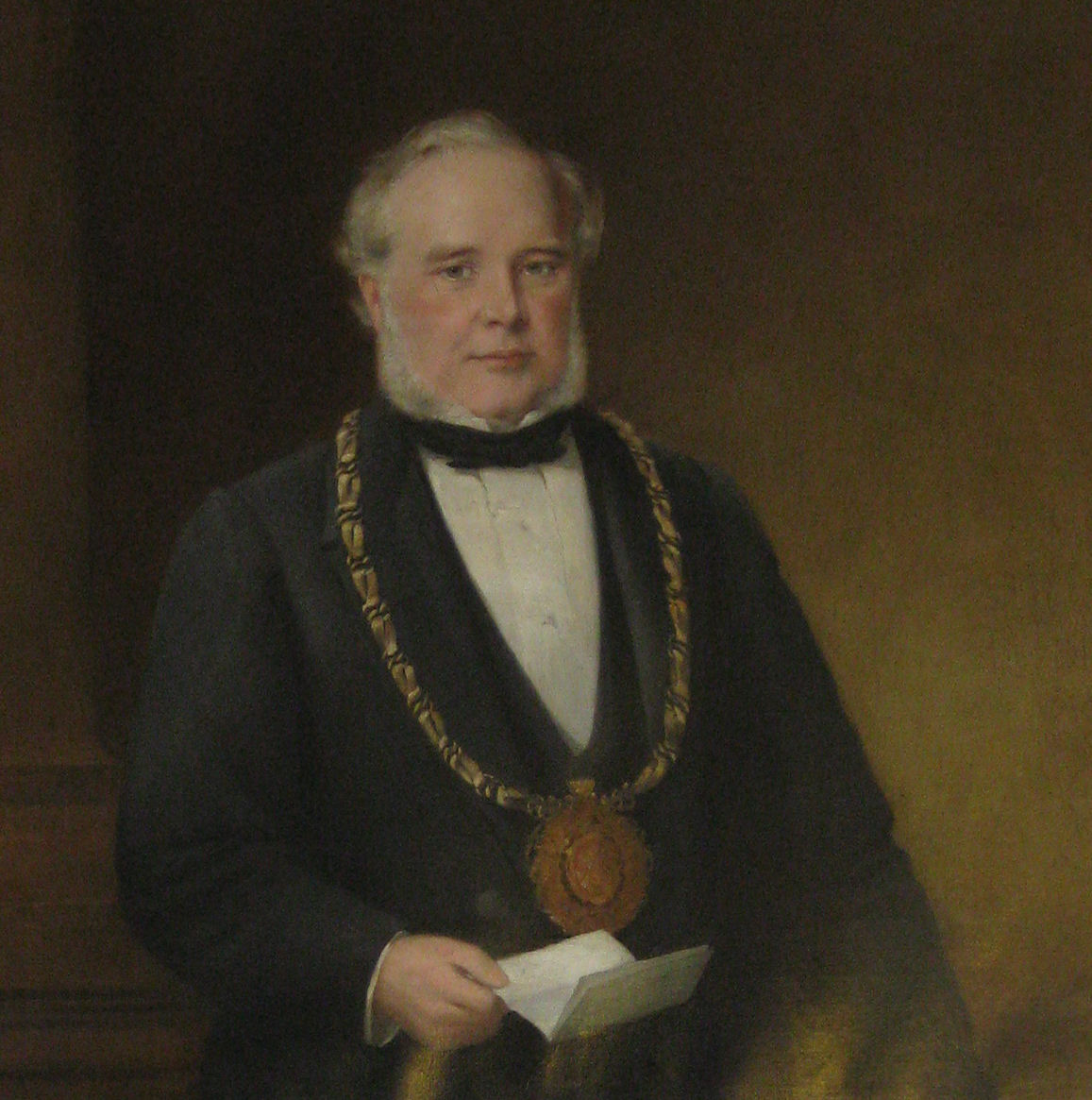 Sir John Brown, Mayor of Sheffield, c 1862. Unknown artist. In Sheffield Town Hall.